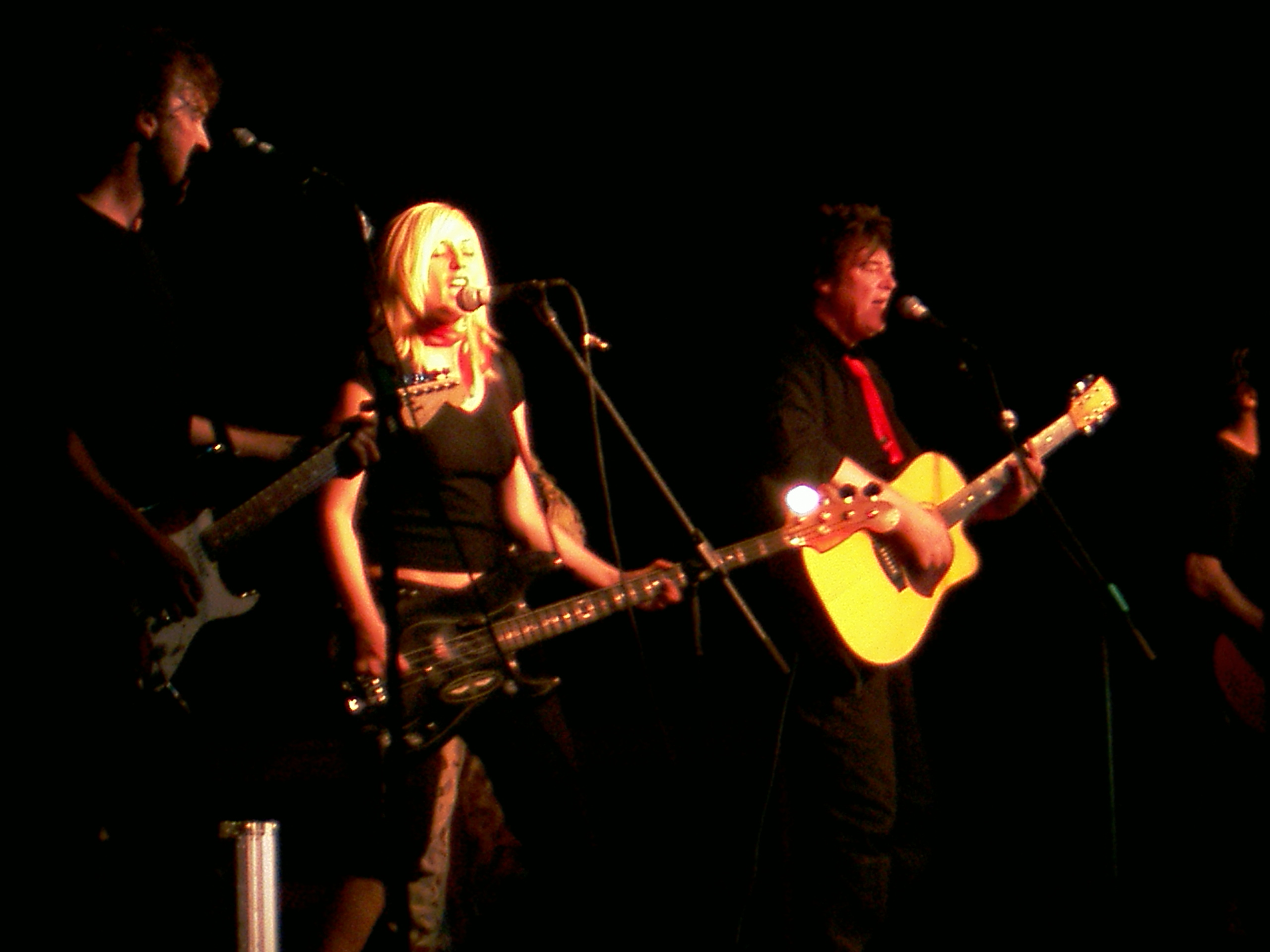 The Angels performing live for the troops on the "Tour de Force", Baghdad.